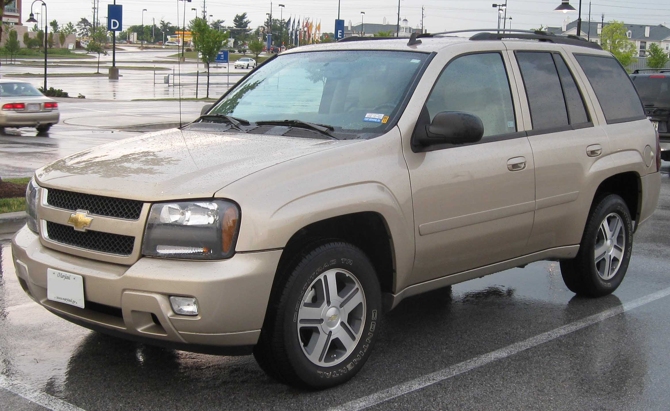 2006-2008 Chevrolet TrailBlazer photographed in College Park, Maryland, USA.